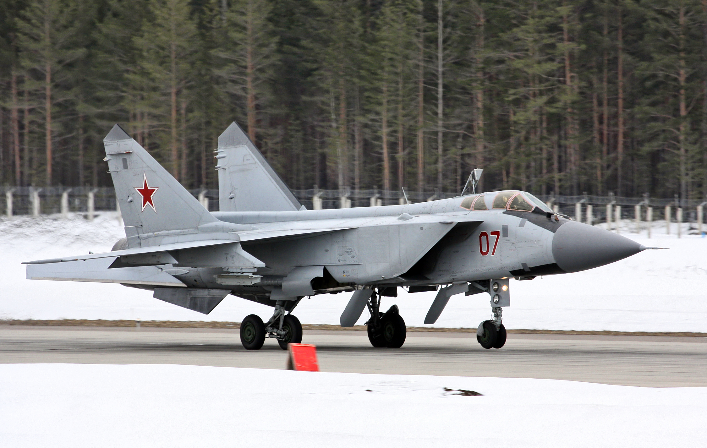 790th Fighter Order of Kutuzov 3rd class Aviation Regiment, Khotilovo airbase